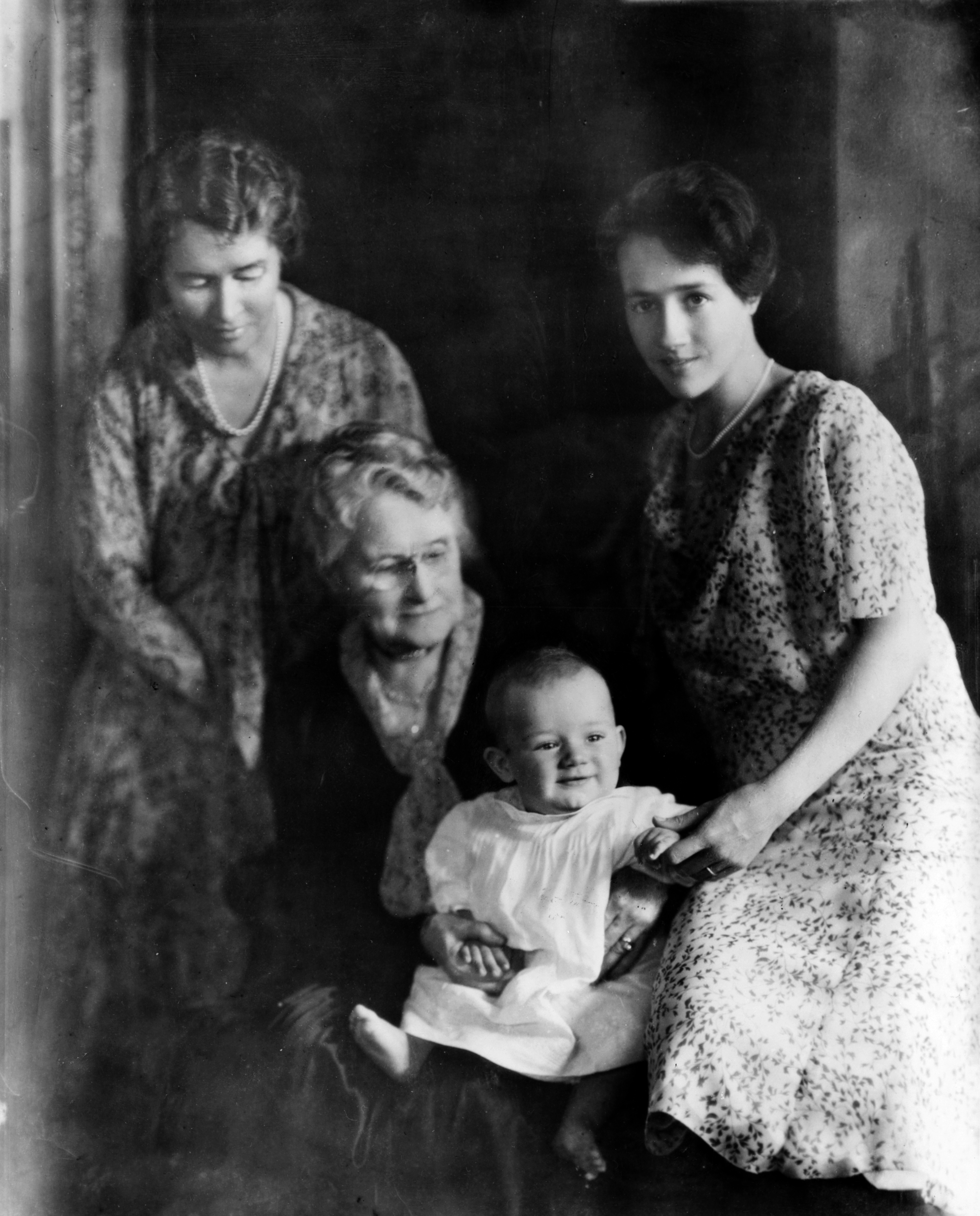 Anne Morrow Lindbergh (right), with her mother (rear) and grandmother (center), and son Charles A. Lindbergh, Jr.